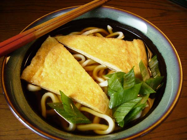 Kitsune udon